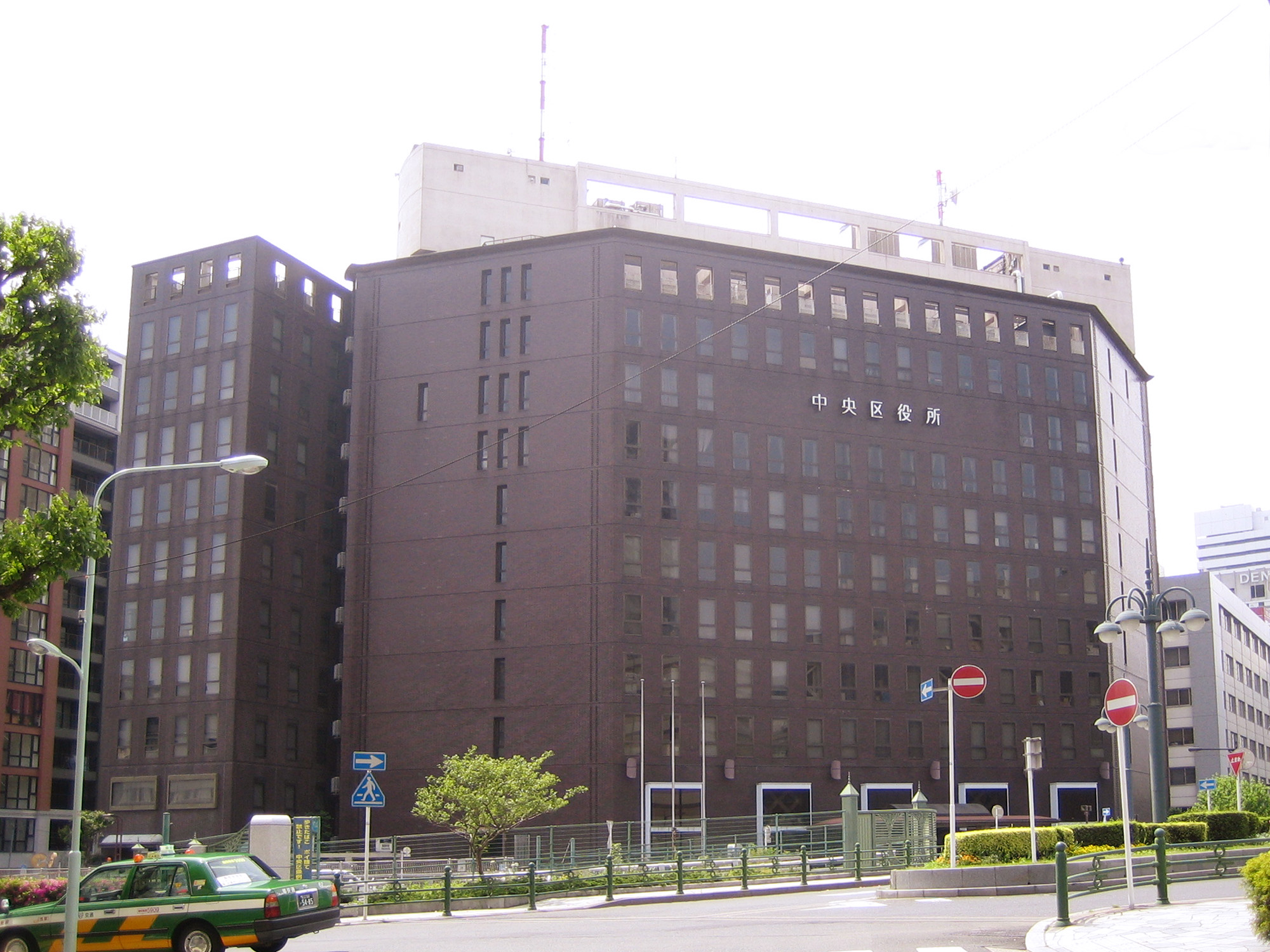 Chuo Ward Office (中央区役所), in Chuo, Tokyo, Japan